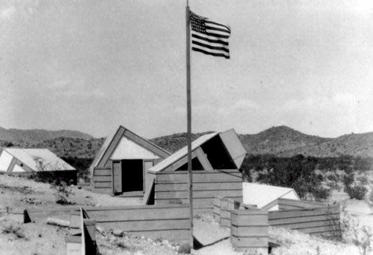 Photograph by George Kastner of Frank Lloyd Wright's Arizona camp, Ocotillo, in Chandler, Arizona. Kastner was a draftsman for Wright. Photograph taken 1929. The camp was constructed out of board and batten with canvas roofs.